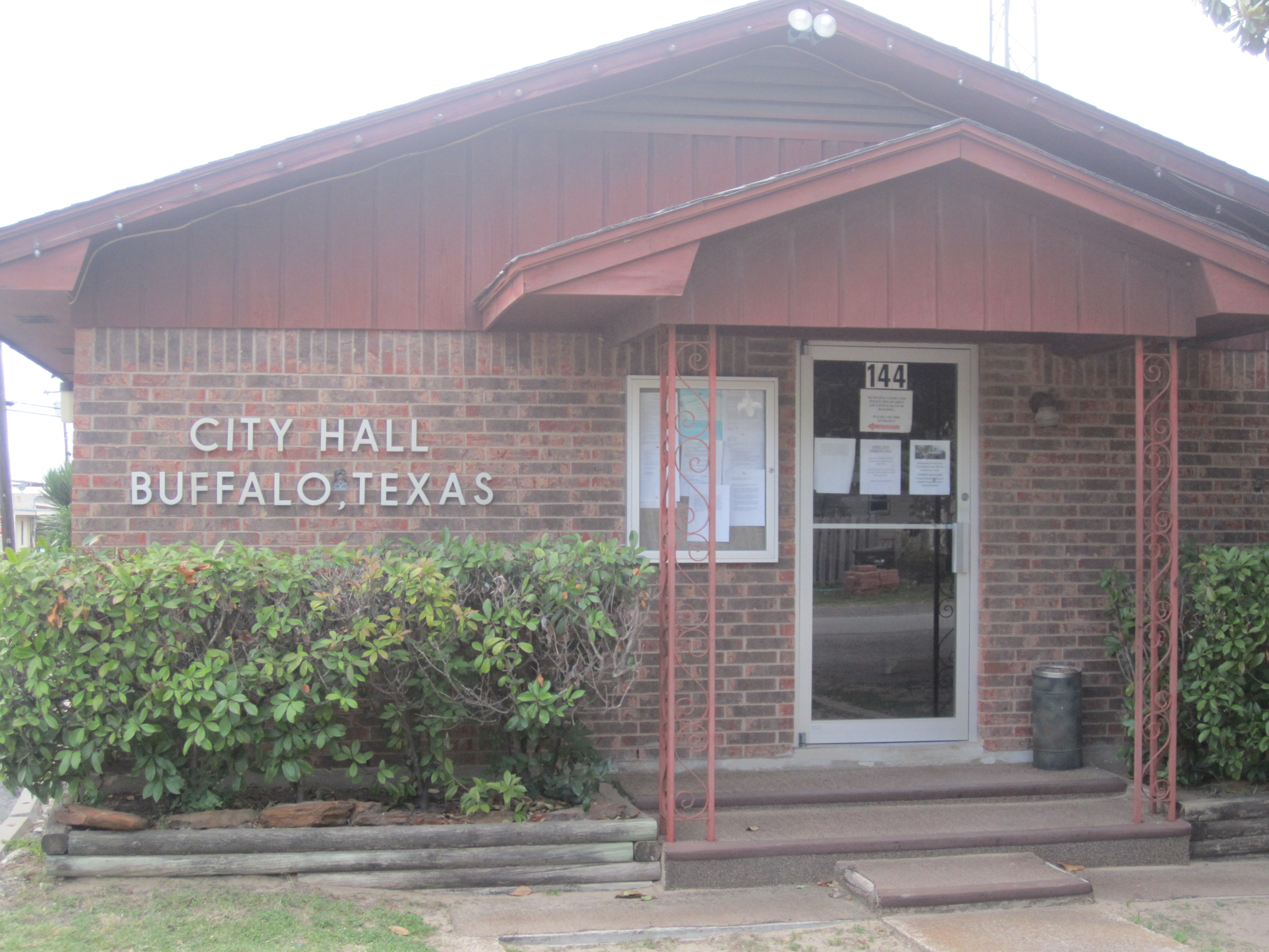 I took photo of city hall at Buffalo, TX, with Canon camera.